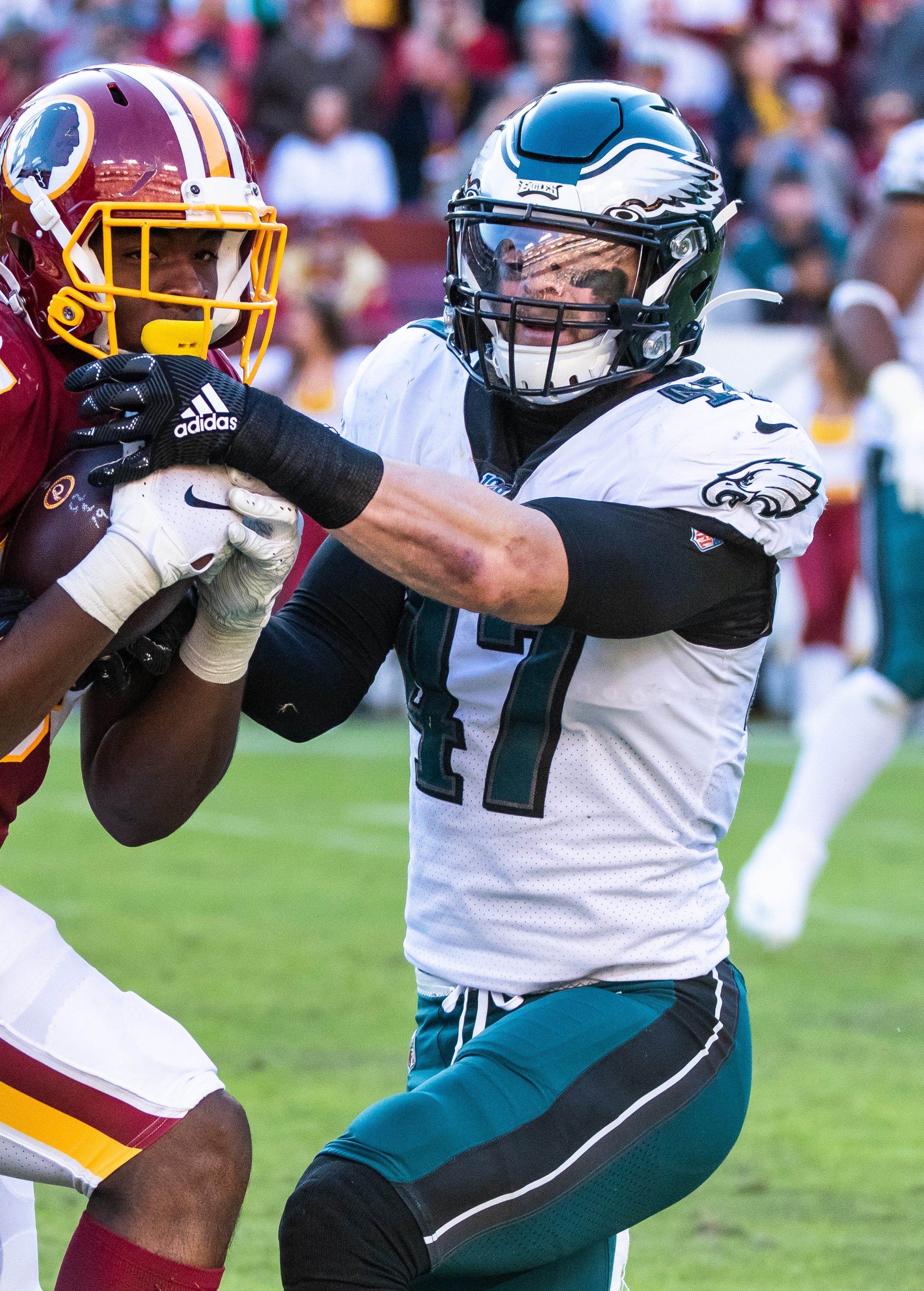 In 2019